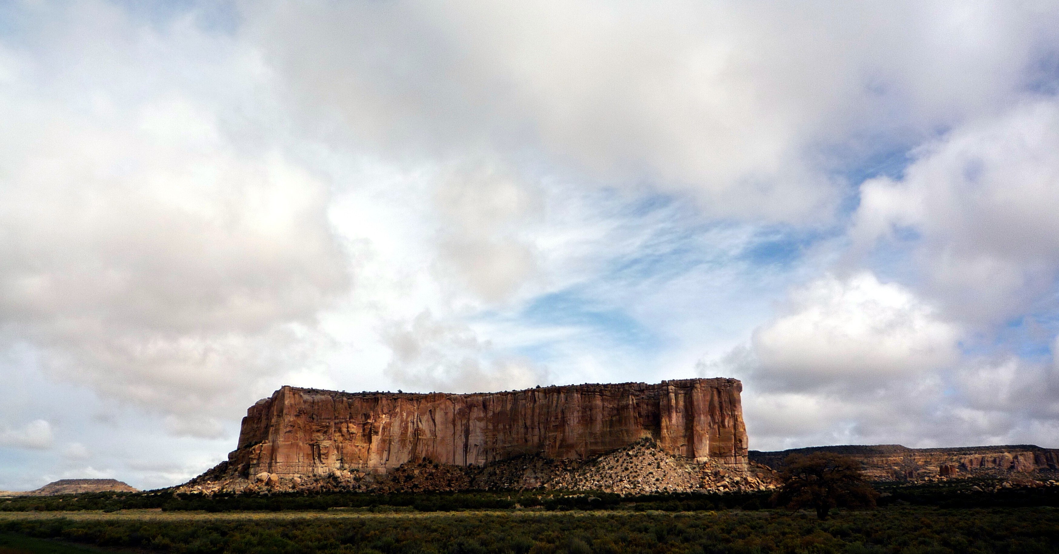 Enchanted Mesa (Katciano, Mesa Encantada)— on the Acoma Pueblo Indian Reservation, Cibola County, New Mexico.